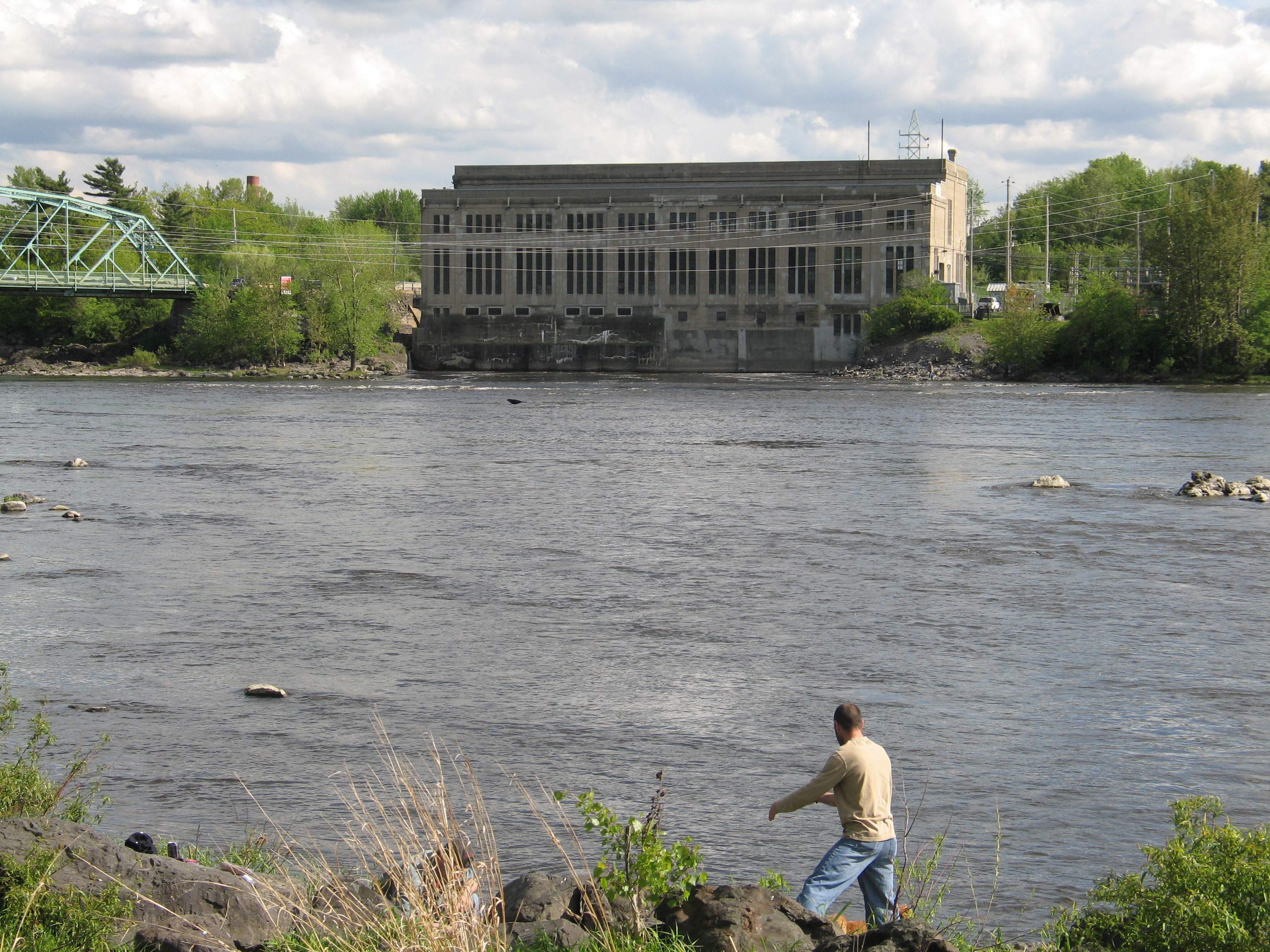 Photo of Hydro-Québec's Drummondville generating station in Drummondville, Québec, taken downstream on the Saint-François River. The 4-turbine power plant was opened in 1910. It generates 16 MW of power. In the foreground, a sport fisherman practises his sport.